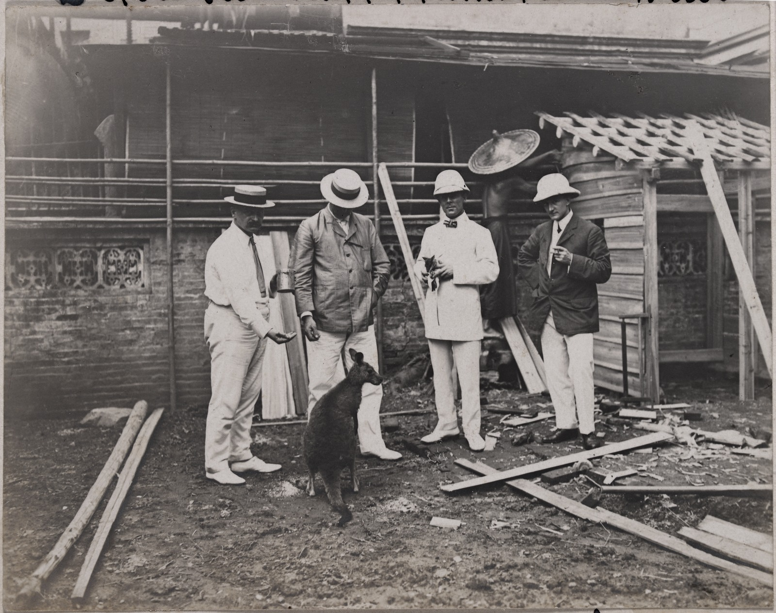 Arthur Purnell centre holding joey with pet Kangaroo, with Charles Paget on right, Canton 1908